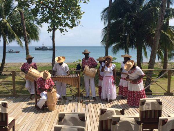 Folklore ancestral